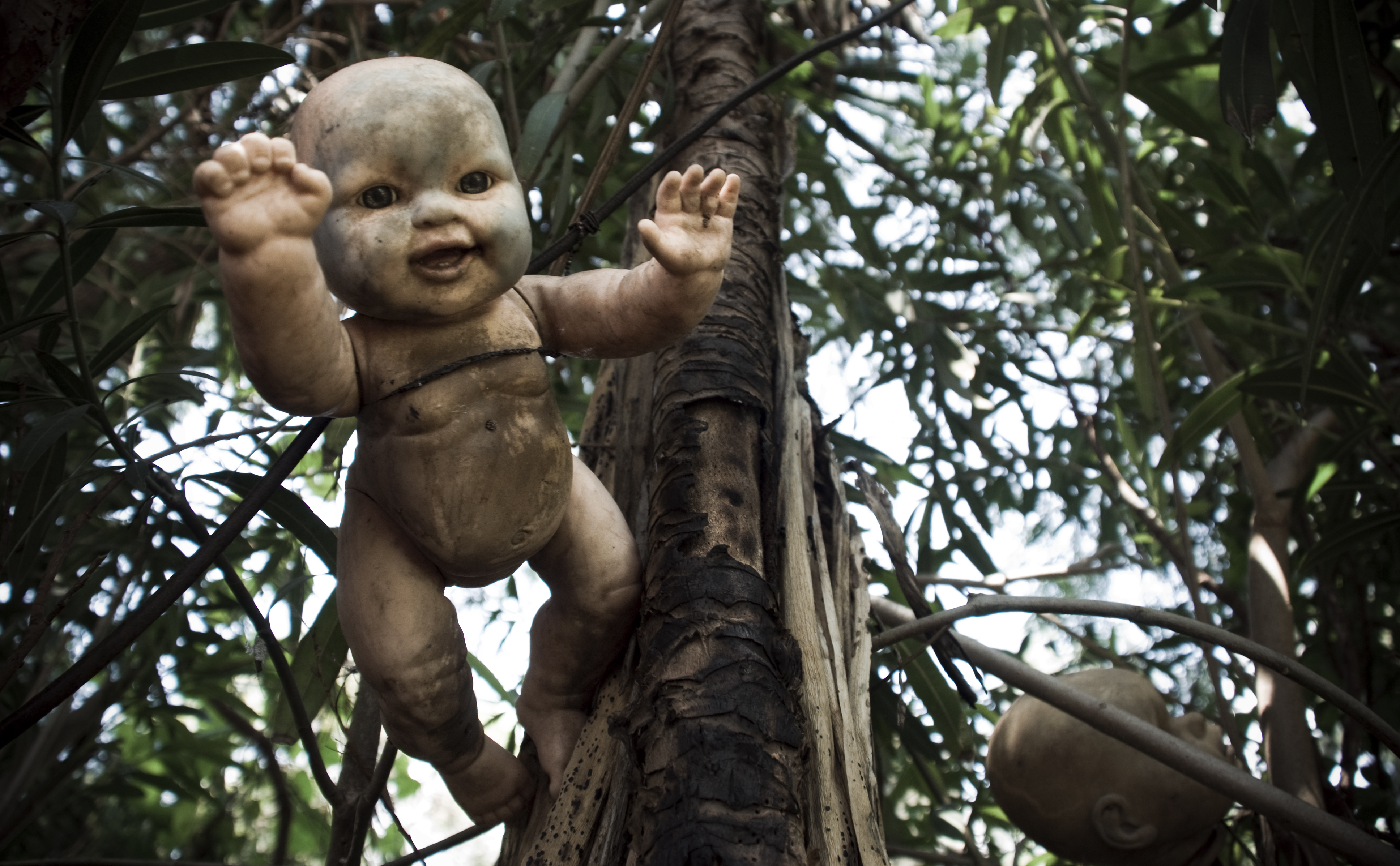 "Isla de las Muñecas", nearby the Xochimilco canals, México Distrito Federal.